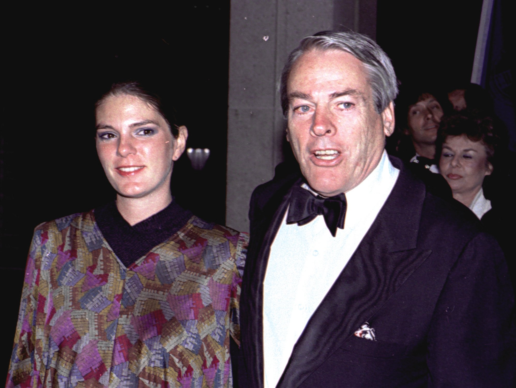 Kevin McCarthy at the Filmex Tribute to Elixabeth Taylor, Dorothy Chandler Pavilion, November 1981. NOTE: Permission granted to copy, publish, broadcast or post any of my photos, but please credit "photo by Alan Light" if you can. Thanks.